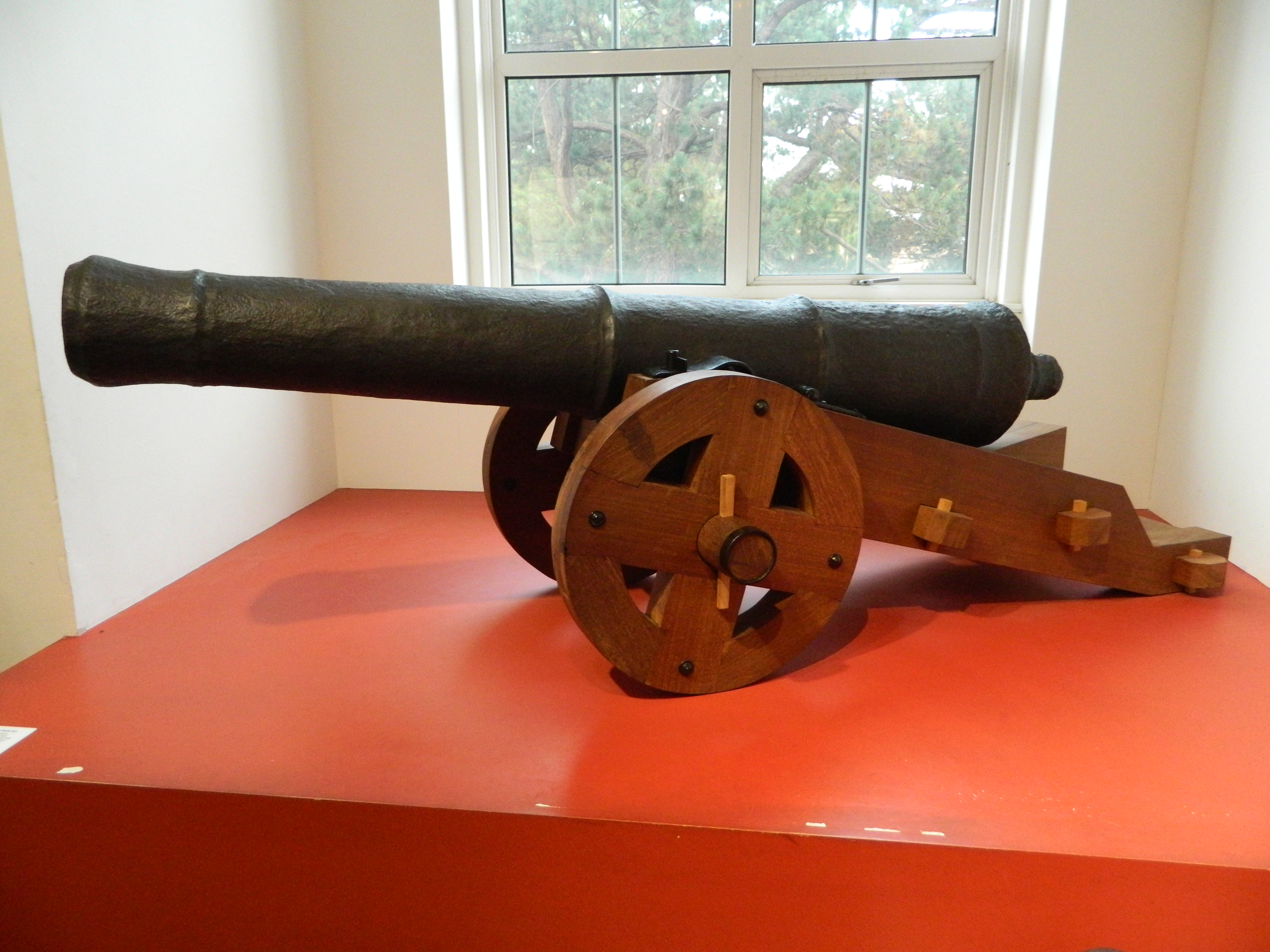 Iron cannon from the Spanish Armada ship Duquesa Santa Ana, Ulster Museum.